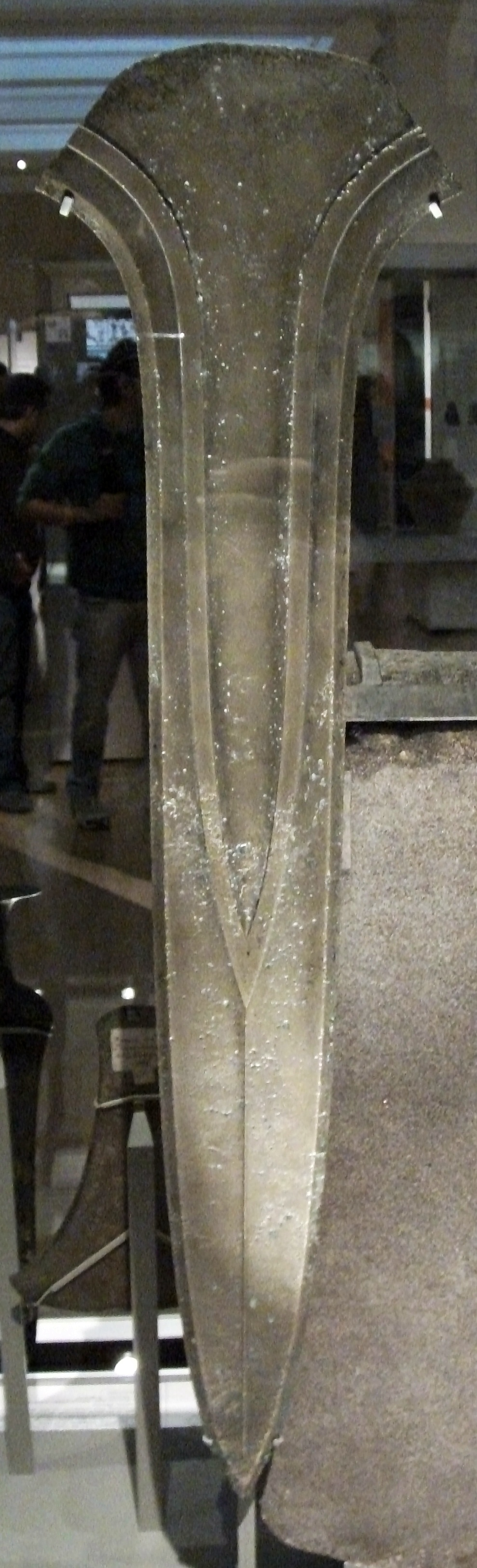 The Oxborough dirk is a large ceremonial weapon from the Bronze Age. It was found in 1988 protruding from a peat bog near Oxborough, Norfolk. It is one of only five large dirks known in north-west Europe. It dates to 1450-1300 BC. It measures 70.9 cm long and 2.37 kg. It is currently on display at the British Museum